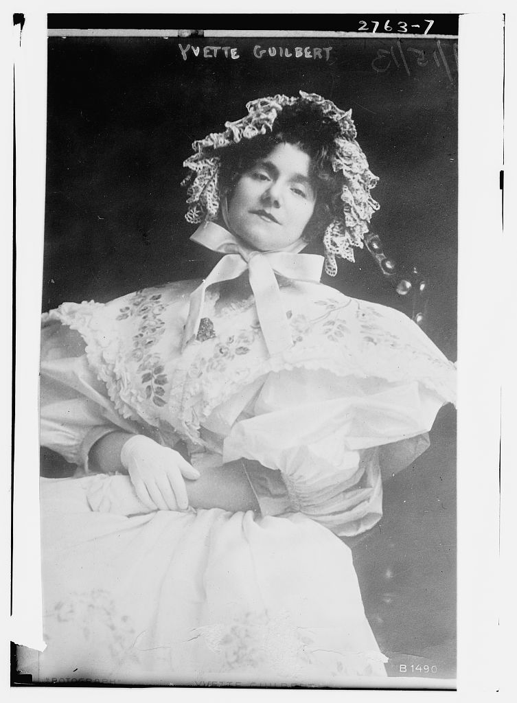 Bain News Service,, publisher. Yvette Guilbert [no date recorded on caption card] 1 negative : glass ; 5 x 7 in. or smaller. Notes: Title from unverified data provided by the Bain News Service on the negatives or caption cards. Forms part of: George Grantham Bain Collection (Library of Congress). Format: Glass negatives. Repository: Library of Congress, Prints and Photographs Division, Washington, D.C. 20540 USA, General information about the Bain Collection is available at Persistent URL: Call Number: LC-B2- 2763-7